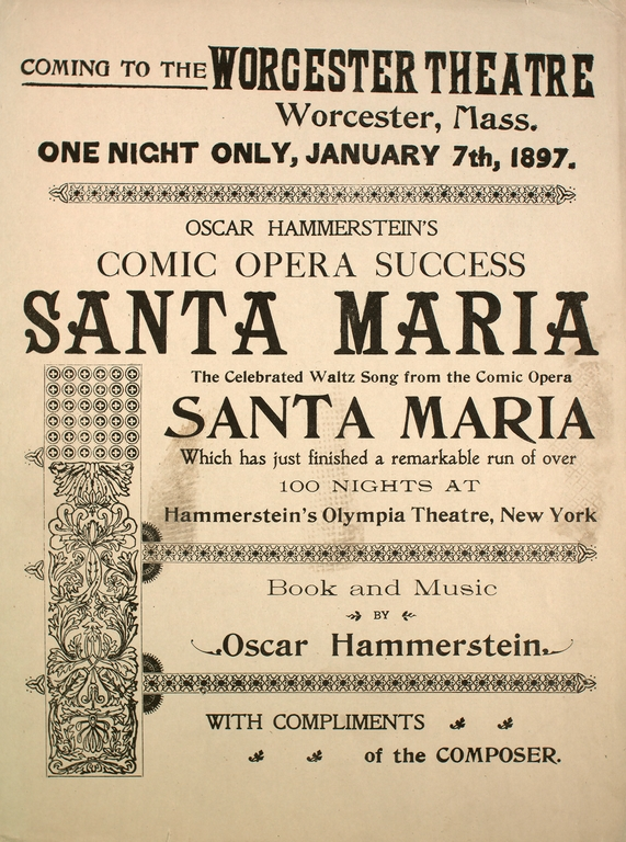 Sheet music cover to 1897 title song of Santa Maria.